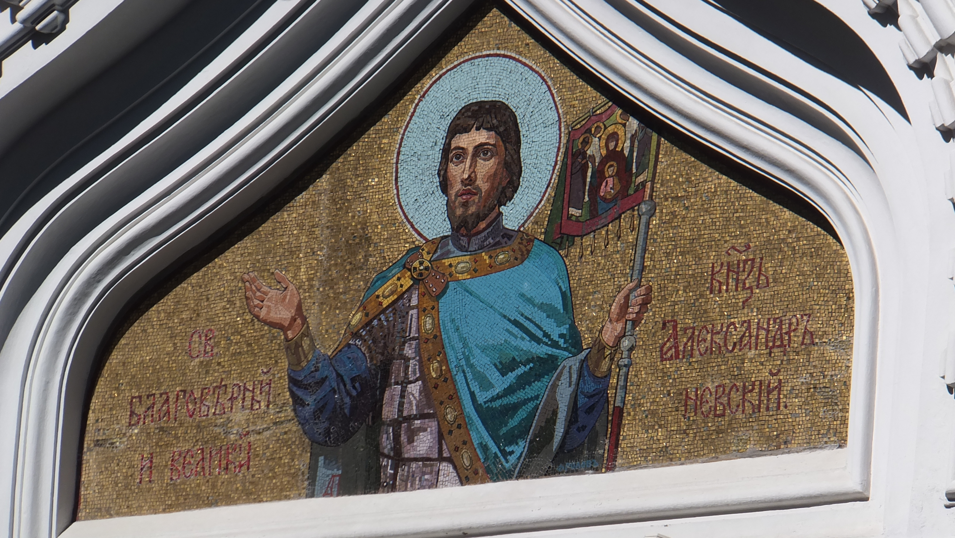 Mosaic of Alexander Nevsky on the front of the Alexander Nevsky Cathedral.